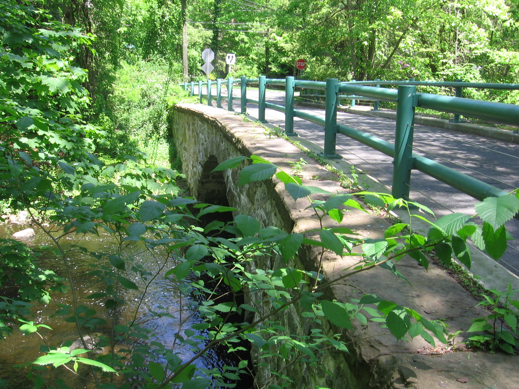 View looking northeast along the arch of the Perry Avenue Bridge in the Silvermine section of Norwalk, Connecticut.